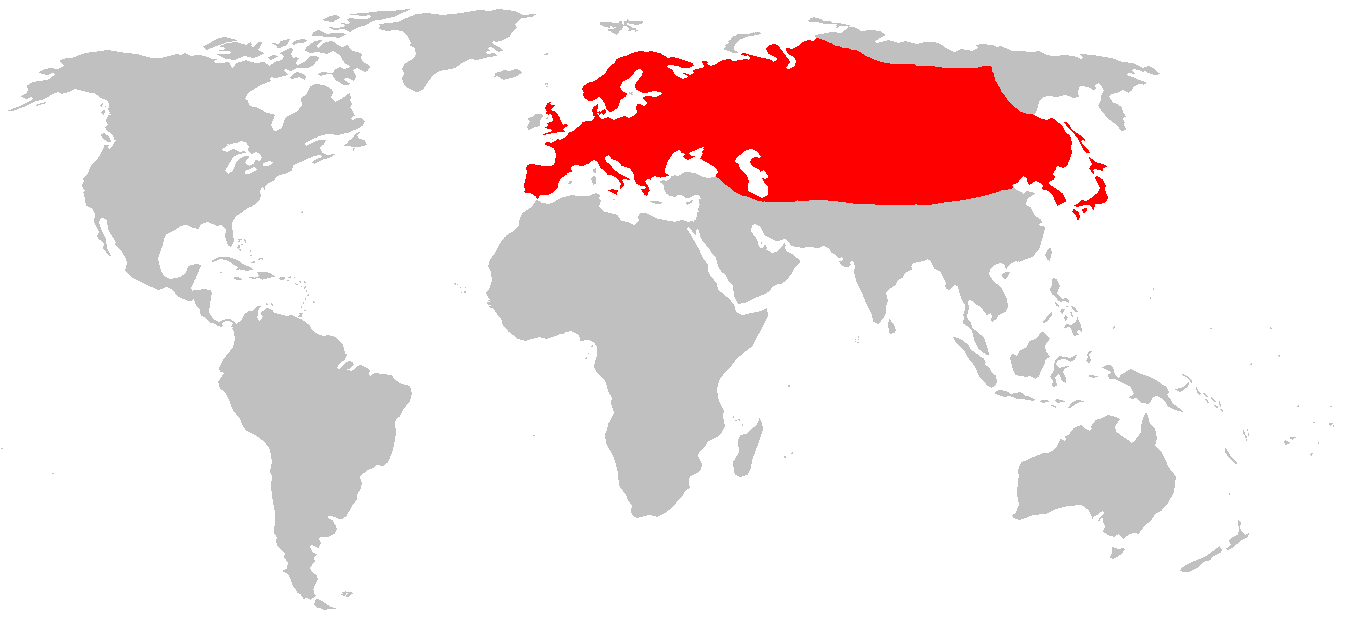 Distribution of Harvest Mouse